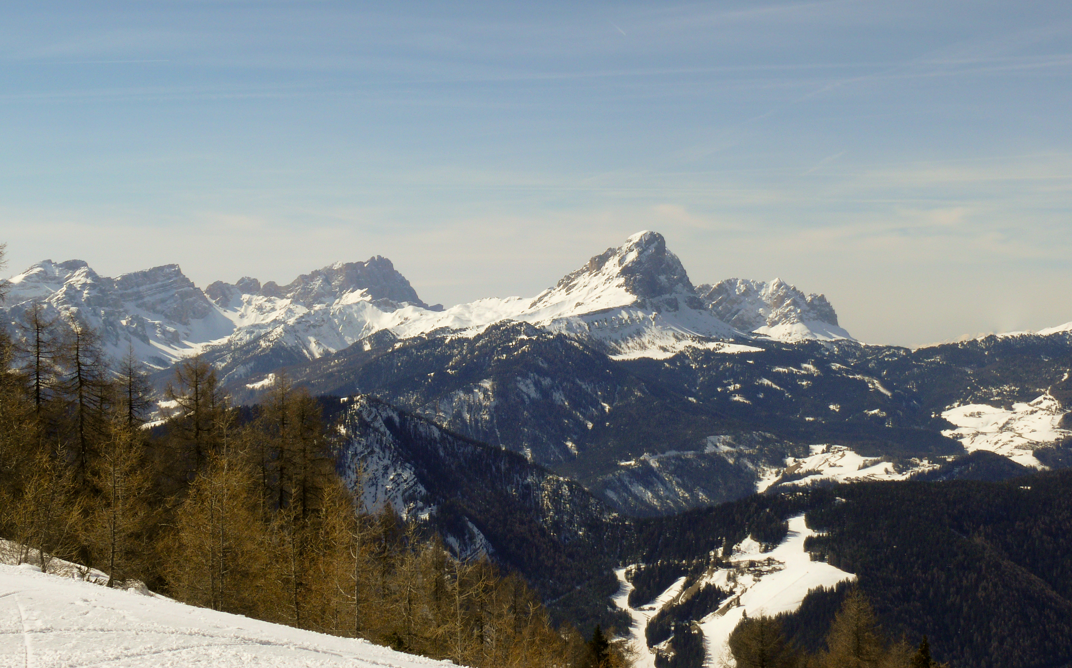 Peitlerkofel (Sasso Putia, 2.875m) in march 2010, seen from Col Toron above Furkelpass (Passo Furcia, 1.789m).